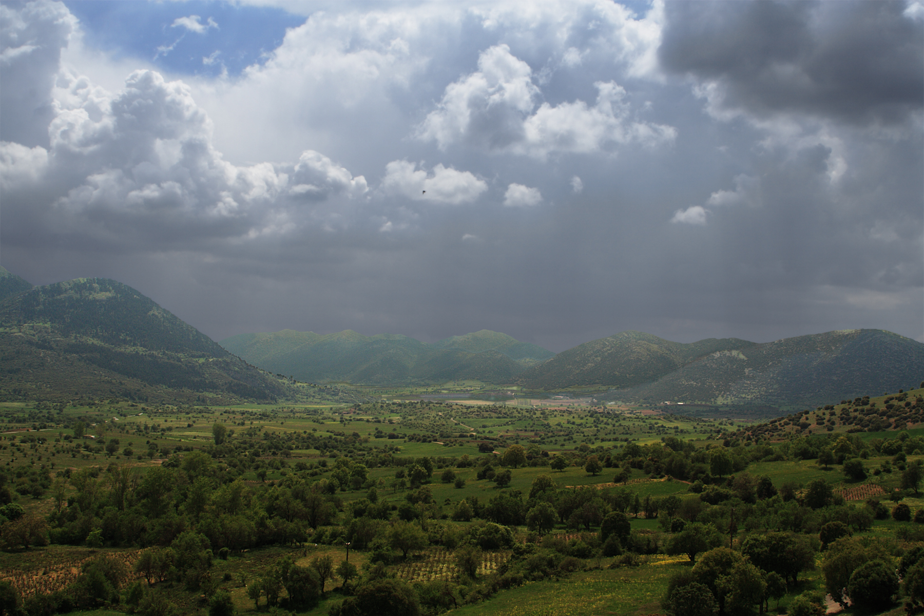 Plateau Lousi, Achaea (a karst depression 950-1050 m, polje), on all sides surrounded by mountains. On its north east border is the village Kato Lousi. Relatively frequent geological phenomenon in the karst basins of the northeast Peloponnese, Greece. The plateau has no natural surface water outlet. Precipitation must be drained by ditches. When precipitation of winters is exceptionally rich, some agricultural fields may become wet. Depending on the capacity of the ditches and the geologically old ponors some fields may even be flooded.